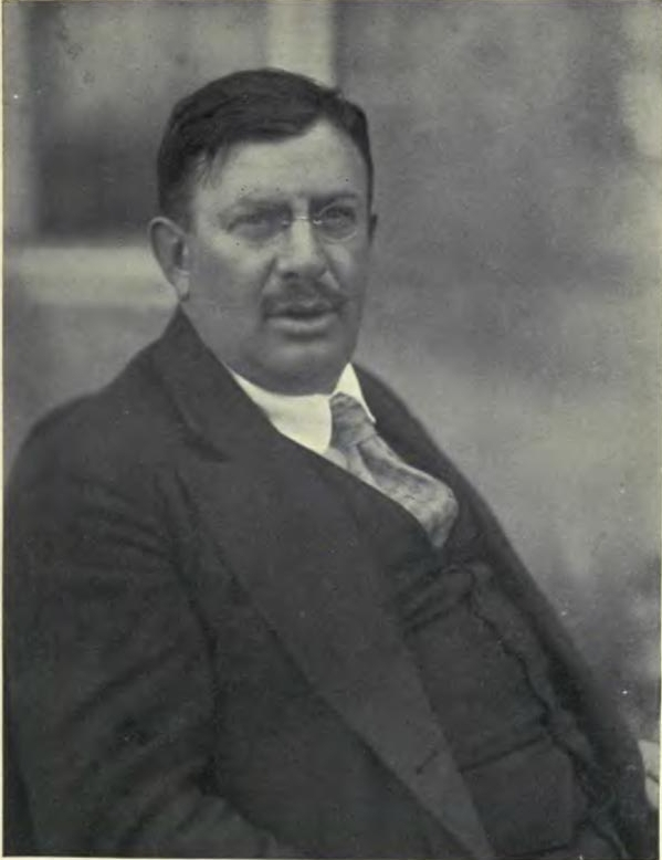 Eugene Landler, Home secretary, later commander in the red army, 1919